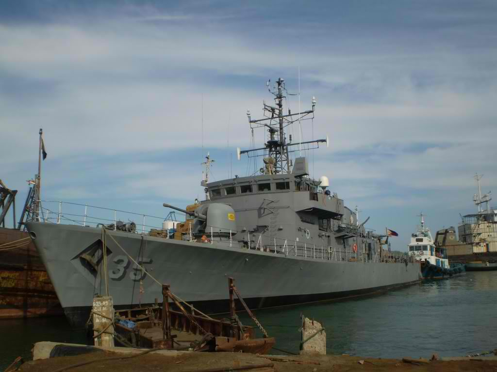 BRP Emilio Jacinto-class